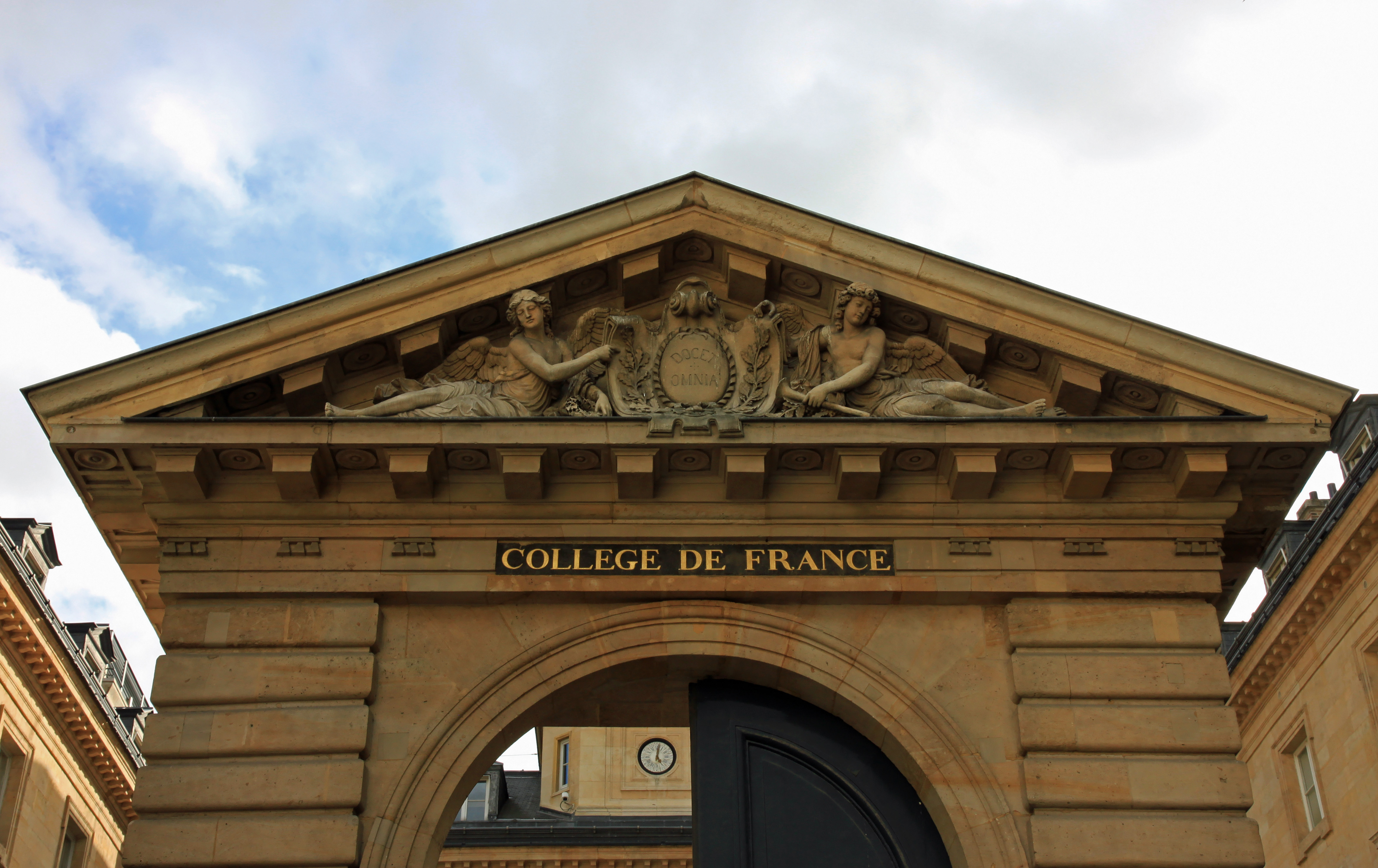 Pediment of the Collège de France, place Marcelin-Berthelot, Paris. The arms states its motto : Docet Omnia ("Teaches everything").